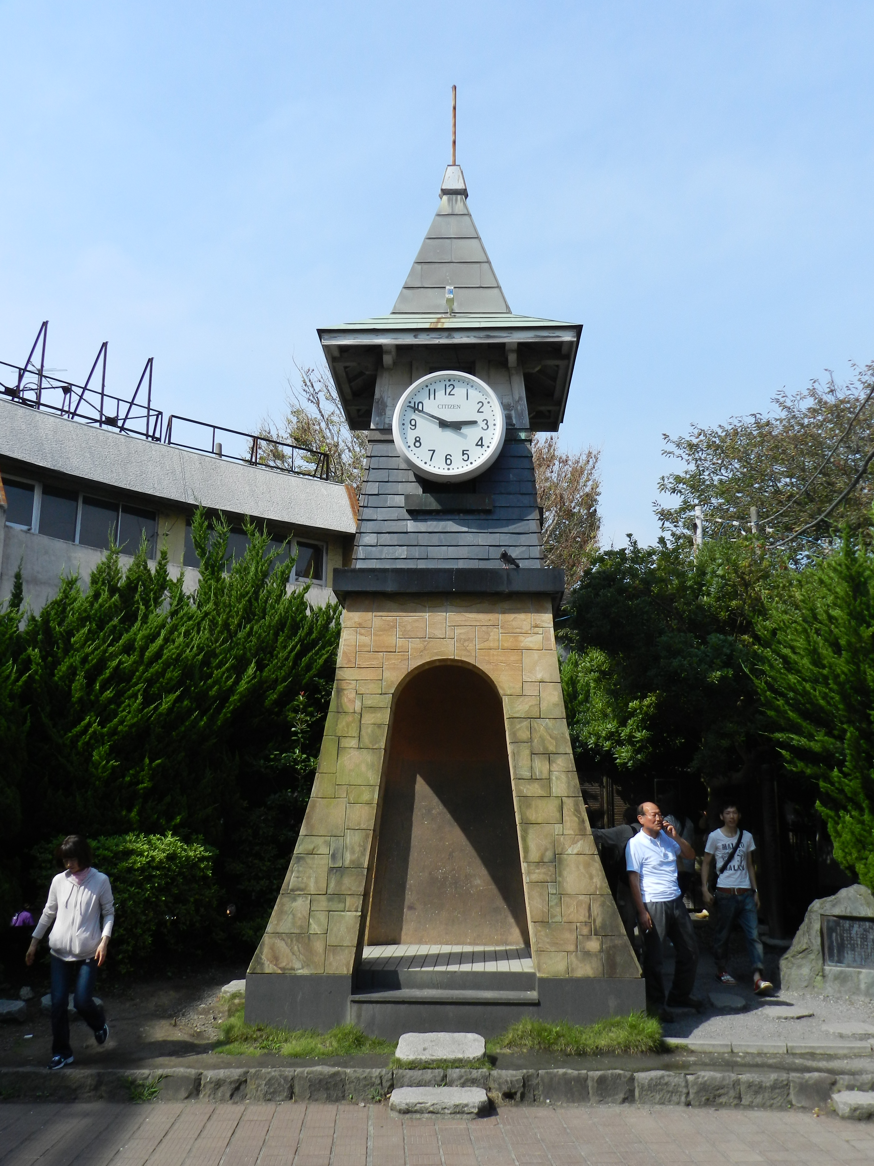 The Clocktower near to the Station of Kamakura at the Kanagawa Prefecture, Japan